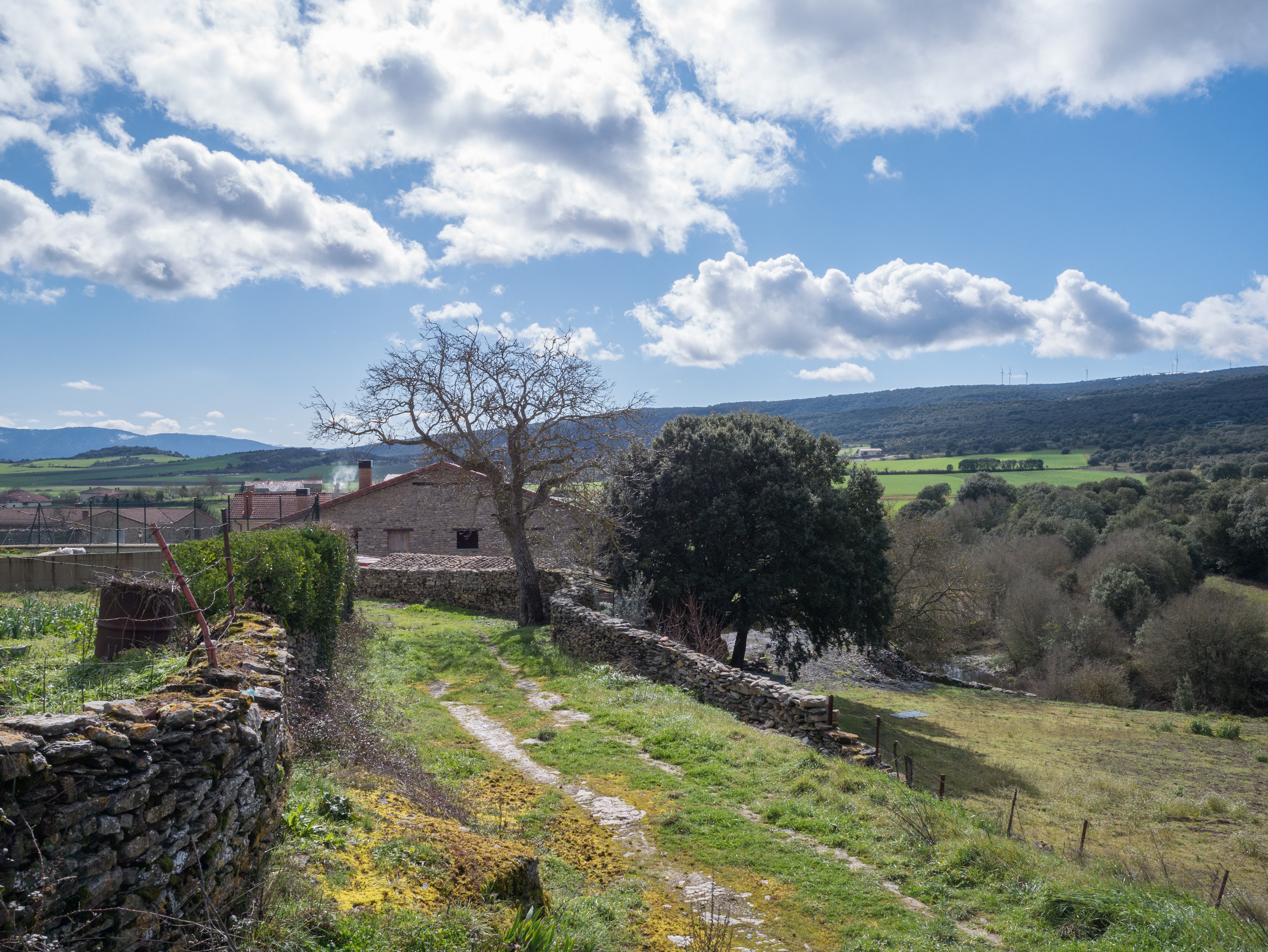 Hueto Arriba, village house, landscape, Sierra de Badaia. A holm oak. Álava, Basque Country, Spain